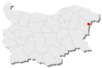 Map of Bulgaria, the red point is the position of Varna.